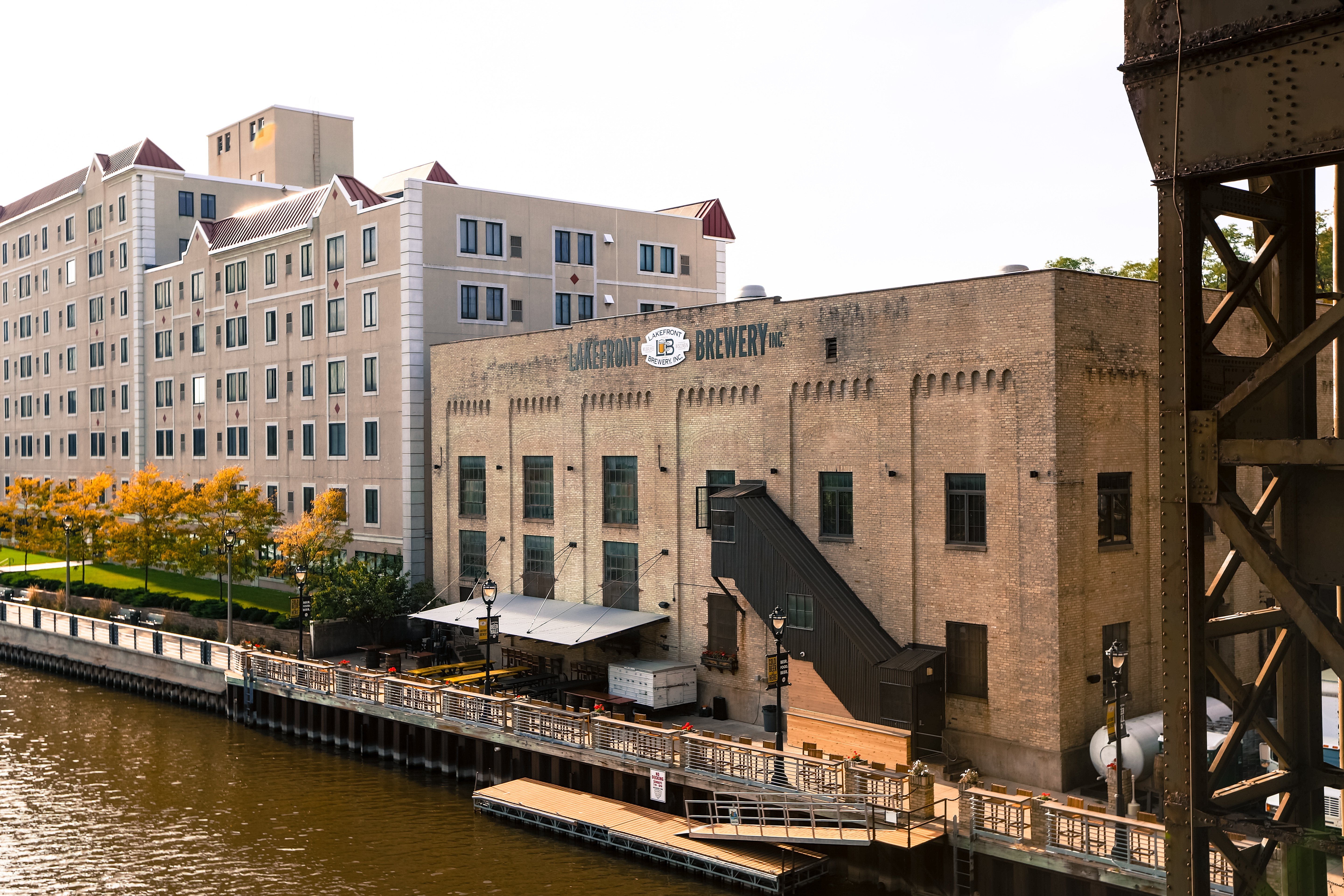 Milwaukee Wisconsin Lakefront Brewing Beer